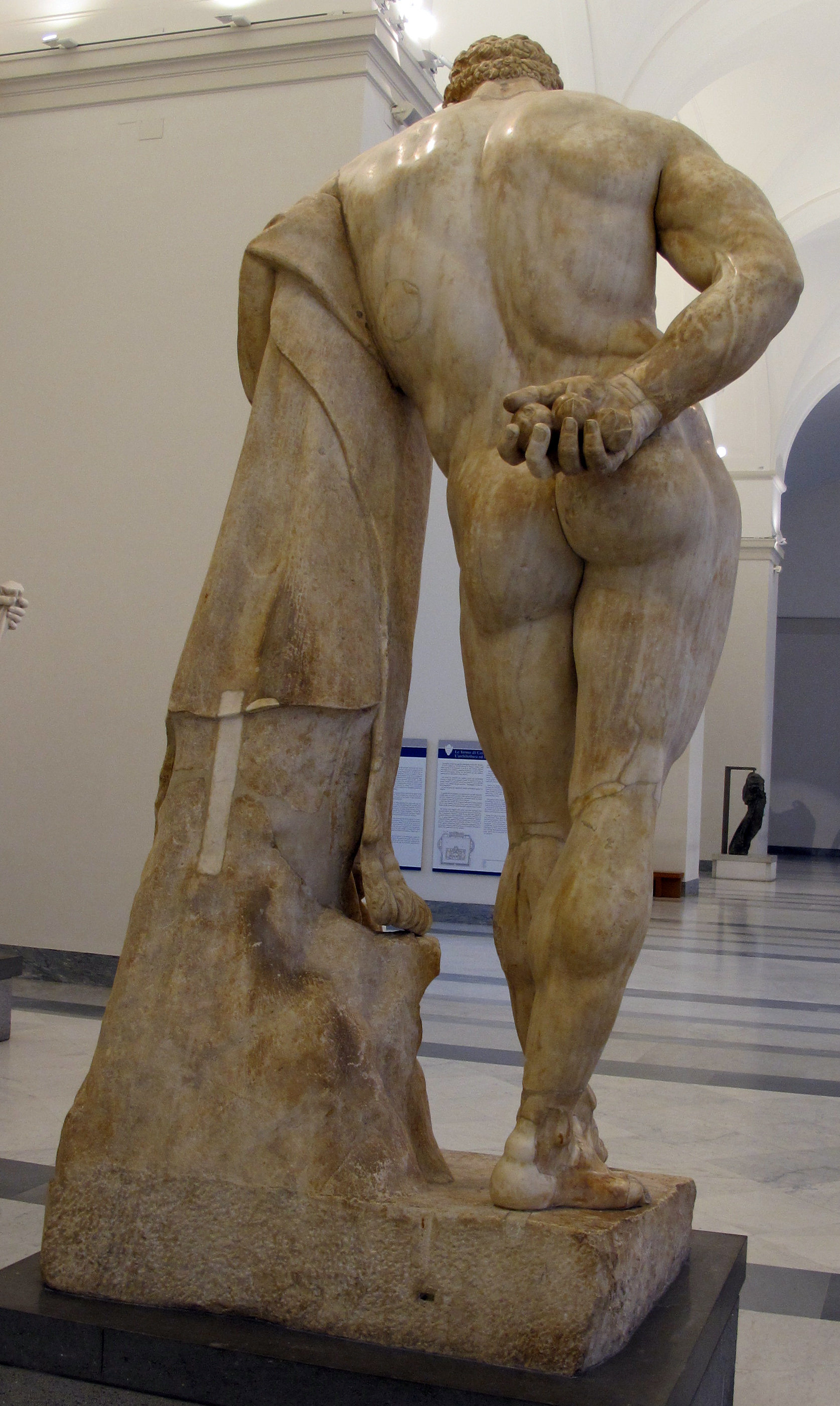 Ancient Roman statues from the Farnese Collection, now in Naples